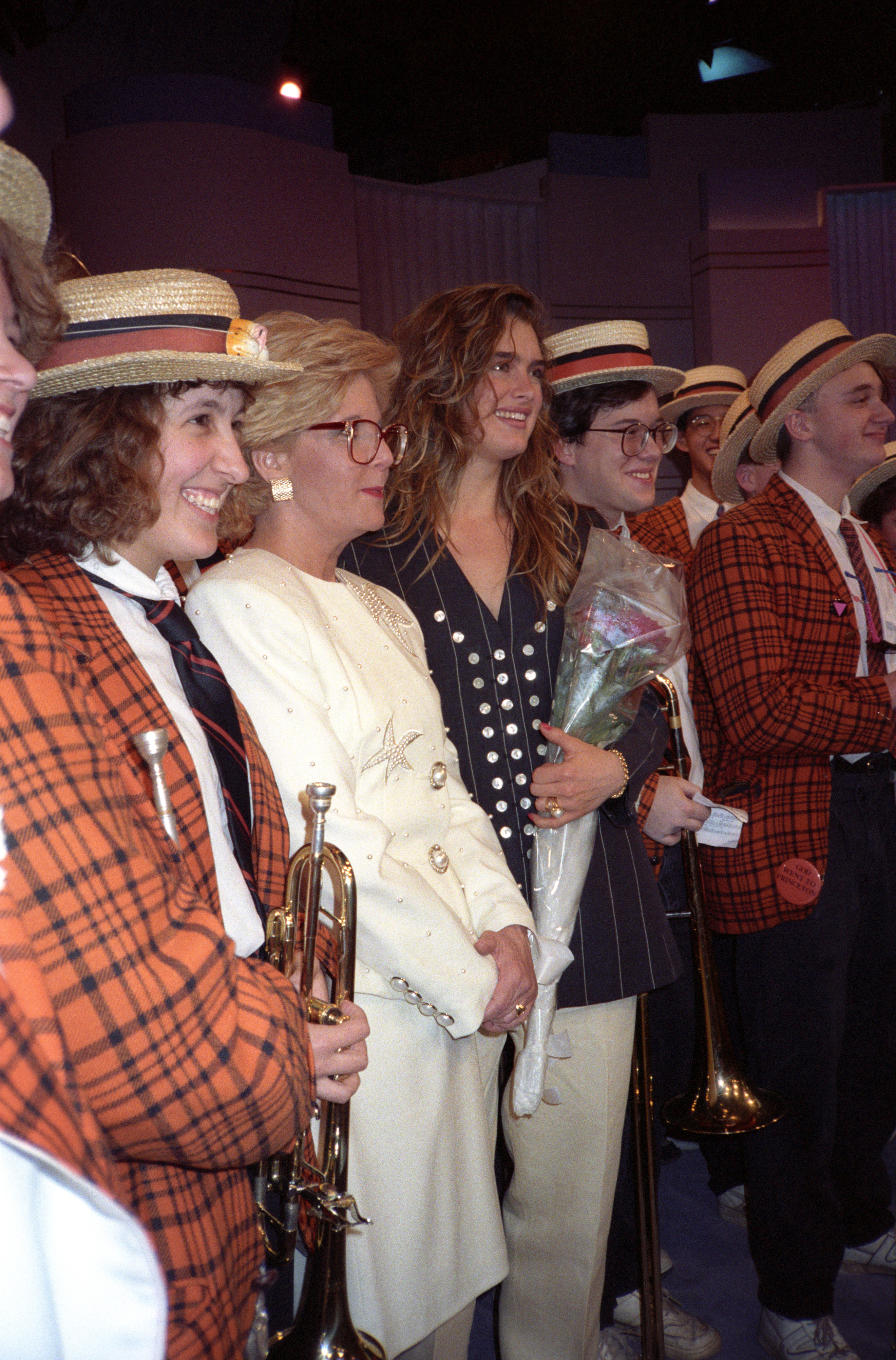 Brooke Shields with Princeton University Band on Sally Jesse Raphael show